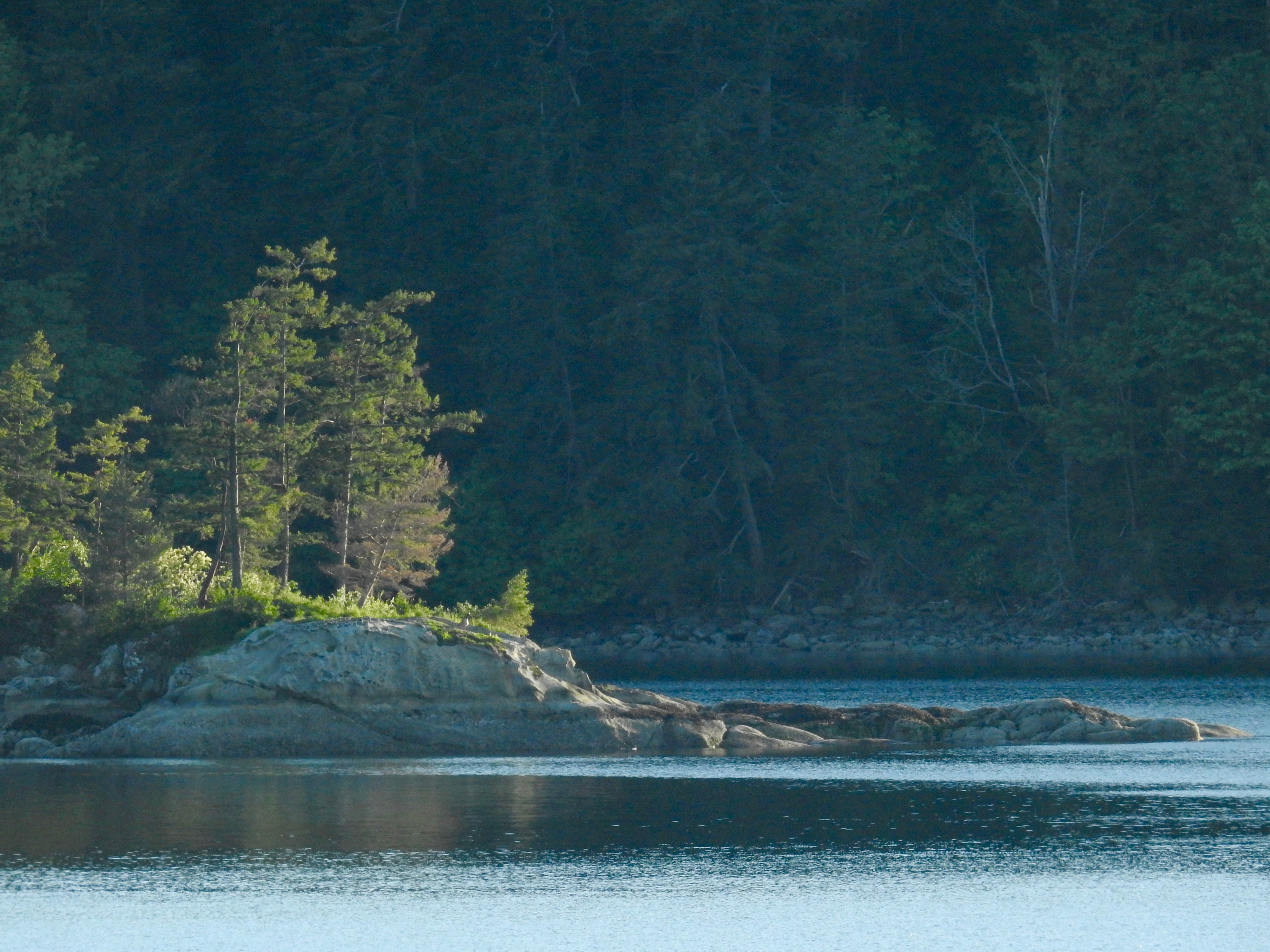 Chuckanut Point in Washington State at low tide. Part of Chuckanut Bay